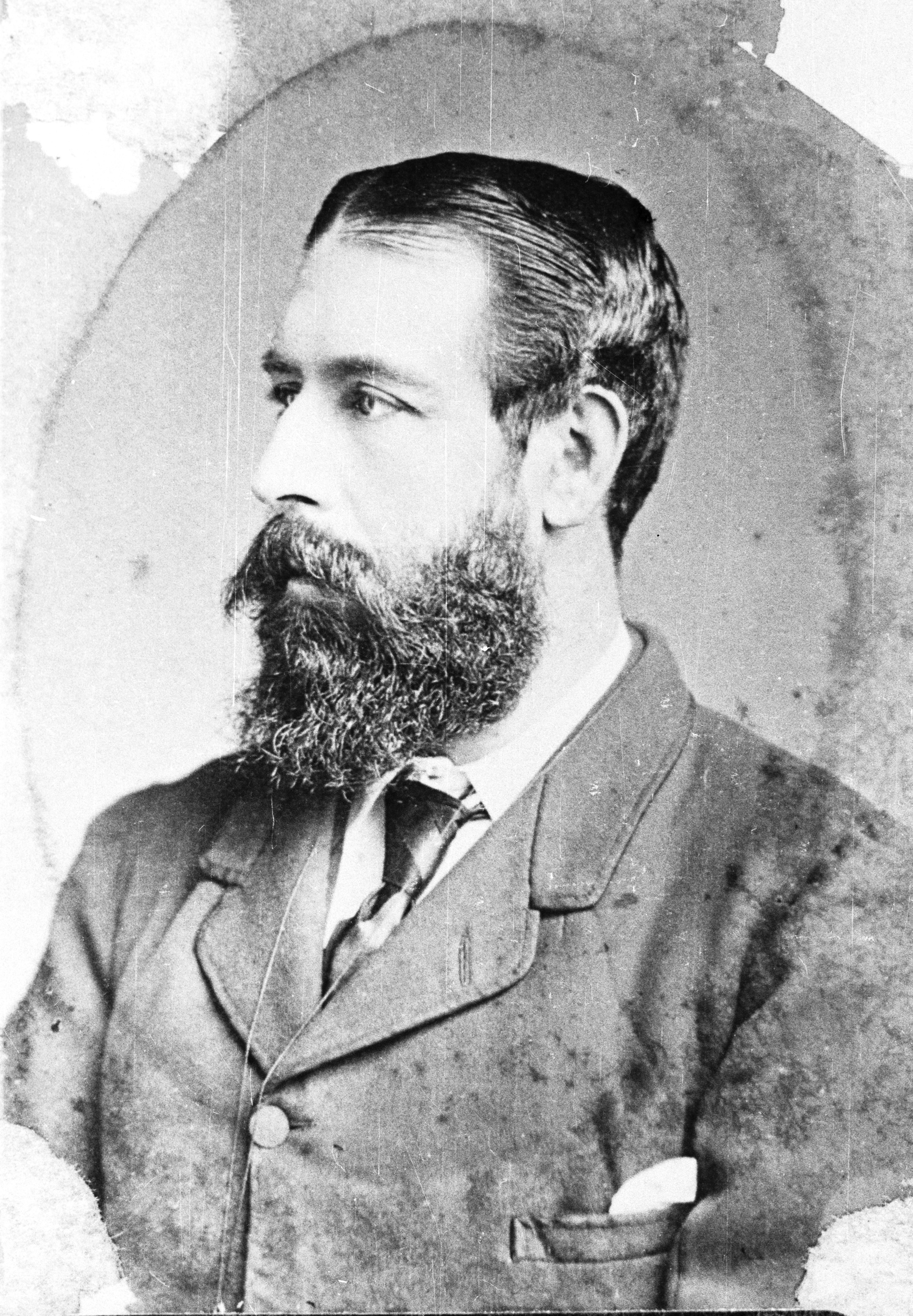 Portrait of William Russell from circa 1878.